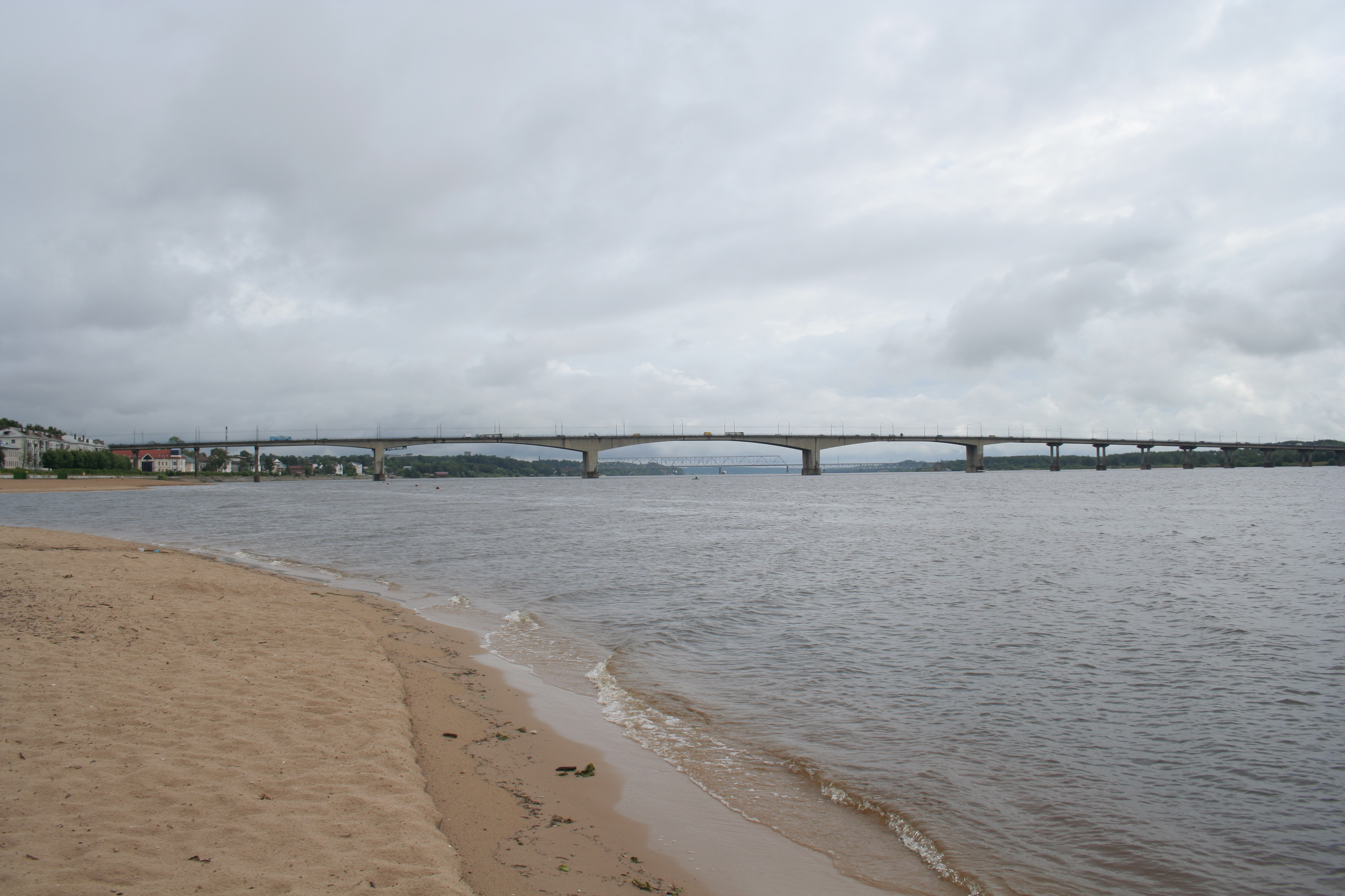 Bridge over the Volga in Kostroma, Russia.